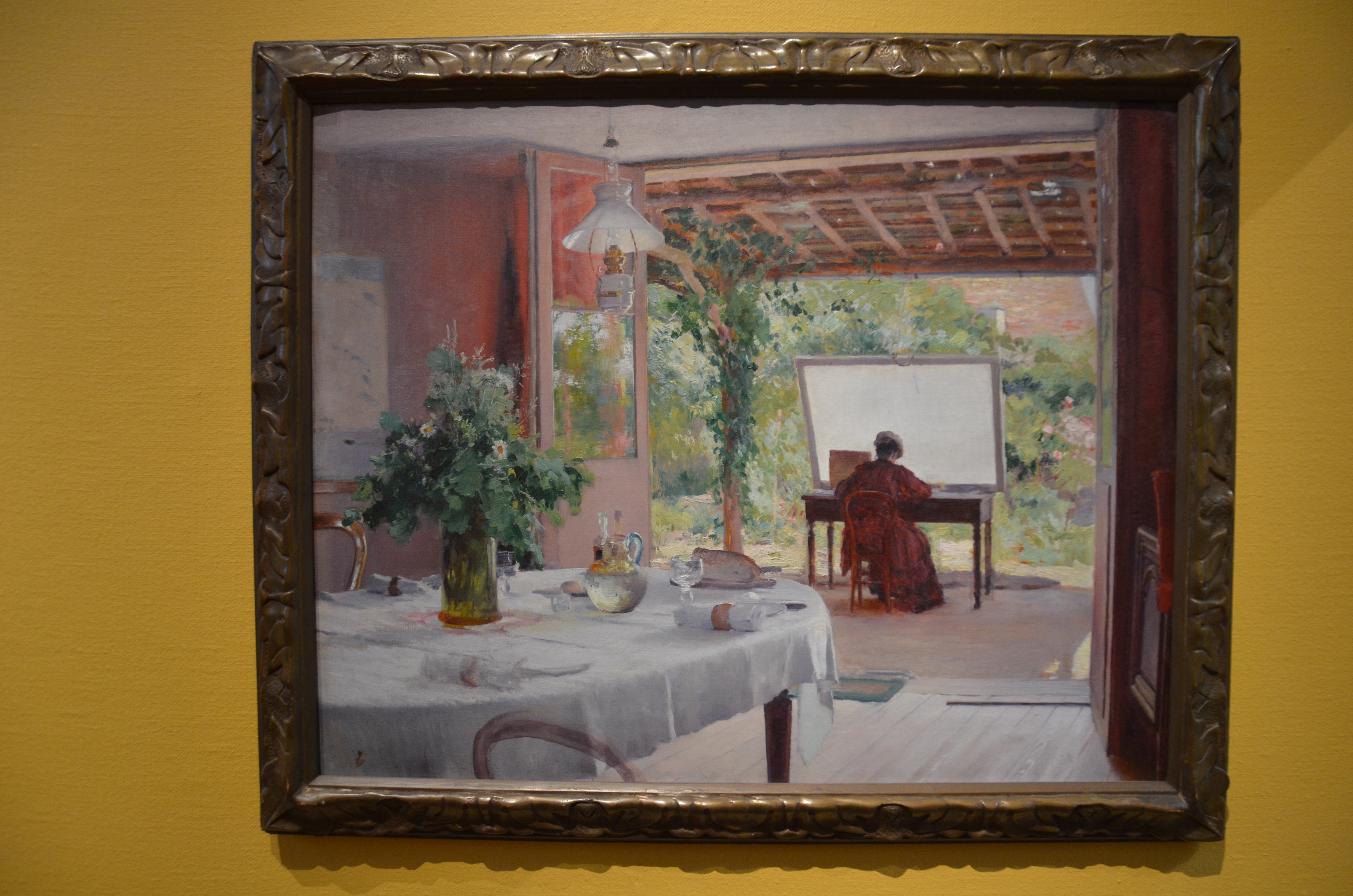 Friluftsatelje (Open air studio), by William Blair Bruce, 1885-90, Nationalmuseum, Stockholm